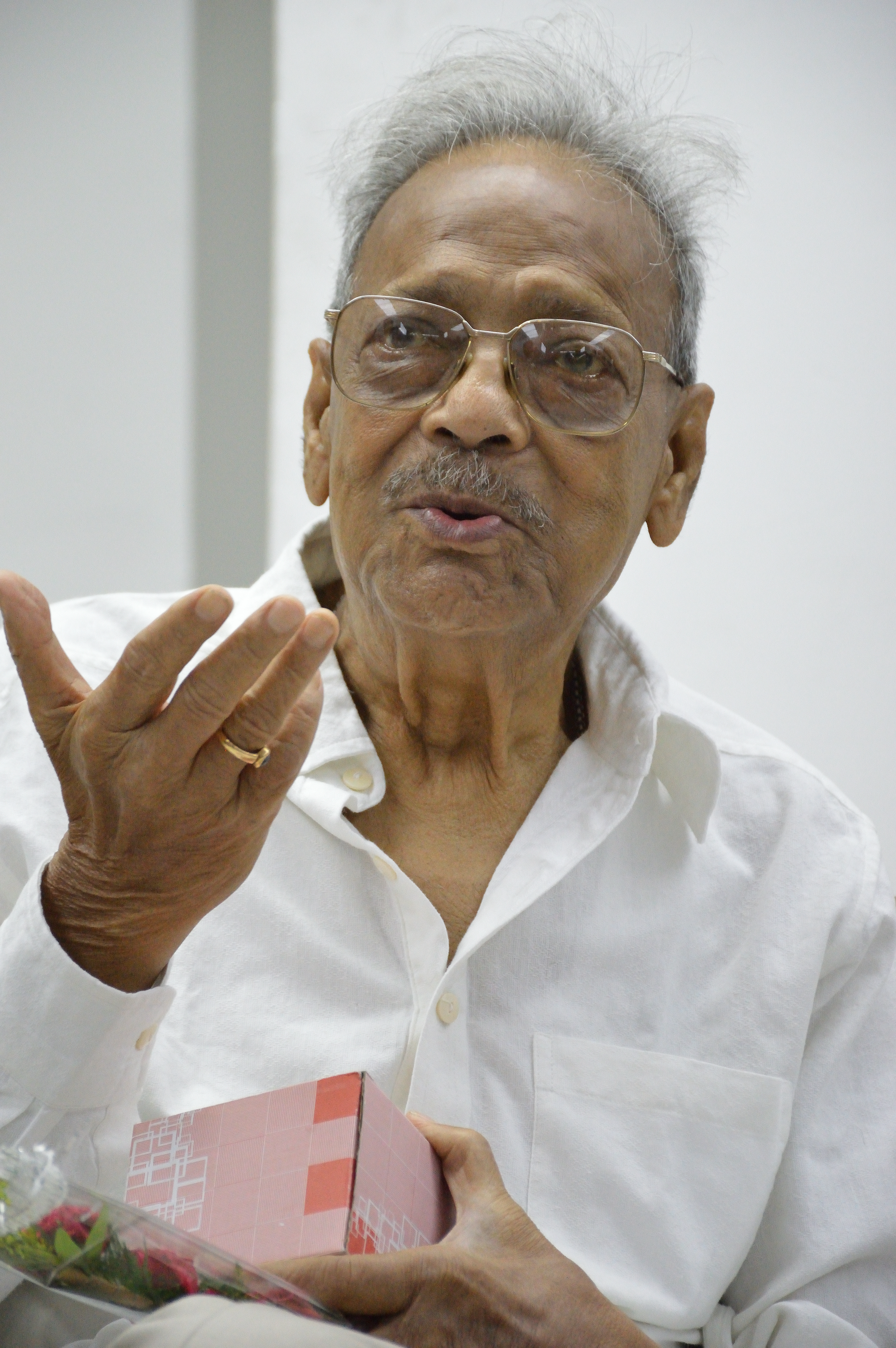 This photograph was taken during the opening function of the group exhibition named 'Photo Art on Greece' by a Kolkata based group 'Four Ps' of four pictorialists: Dr. Abhoy Nath Ganguly, Prof. Biswatosh Sengupta, Mrinal Kumar Bandyopadhyay and Subrata Dutta. 64 photographs were exhibited those taken during their visit to Greece from 5th to 15th May, 2018. The exhibition was held at the Gaganendra Silpa Pradarshala, Kolkata from 17th to 19th April, 2019. Prof. Somendranath Bandyopadhyay, Prof. Bikas C. Sanyal, Padma Shri Nemai Ghosh and about 150 photo lovers were present at the public function.